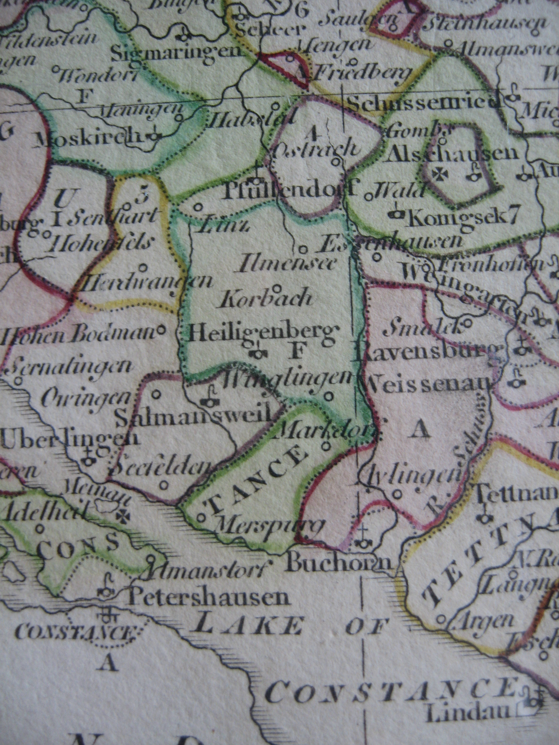 Swabia had the highest concentration of states in the Holy Roman Empire. Most were very small. Here, part of the Linzgau region with the Free Imperial Cities of Überlingen, Buchorn, Lindau, Ravensburg and Pfullendorf, the Imperial Abbeys of Petershausen, Salmansweil (Salem), Lindau, Weissenau, Weingarten, Schussenried, the counties of Tettnang, Sigmaringen (Hohenzolern) and Konigseck, the Prince-Bishopric of Constance, and enclaves belonging to Furstenberg ("F"), Austria ("A), Petershausen ("5"), Salem ("4"). Cropped from a map of Swabia published by R. Wilkinson in 1802